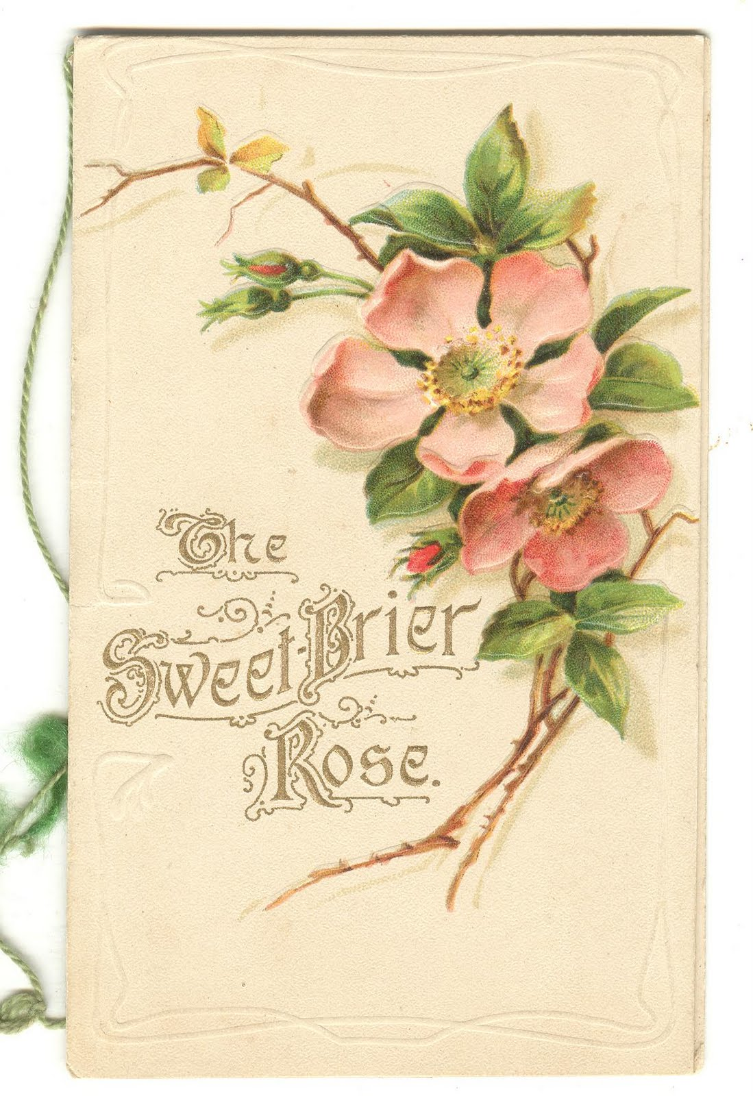 sweet brier rose, tract, Gertrude Seibert, Watch Tower, Bible Students, front cover